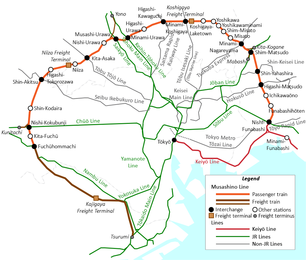 Connections of the JR East Musashino Line